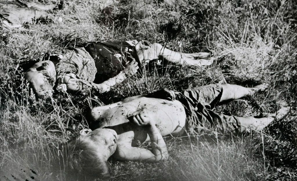 One of 300 images declassified by the Finnish government in 2006 showing the Winter War and Continuation War against the Soviet Union from 1939–45.